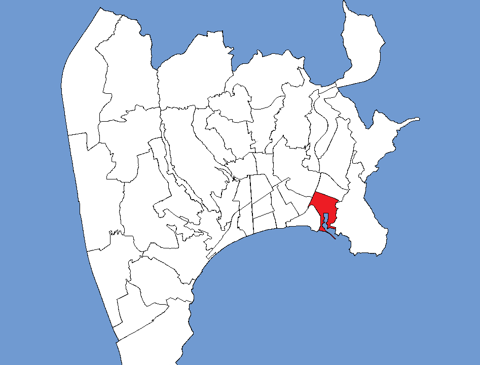 Location of the neighbourhood Port in Nice